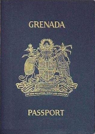 Front cover of a Grenadian passport